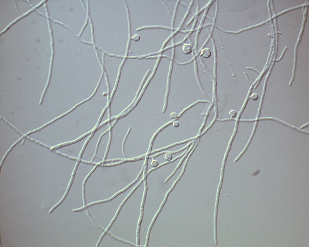 Hypha and vesicle of symbiotic nitrogen-fixing bacterium Frankia